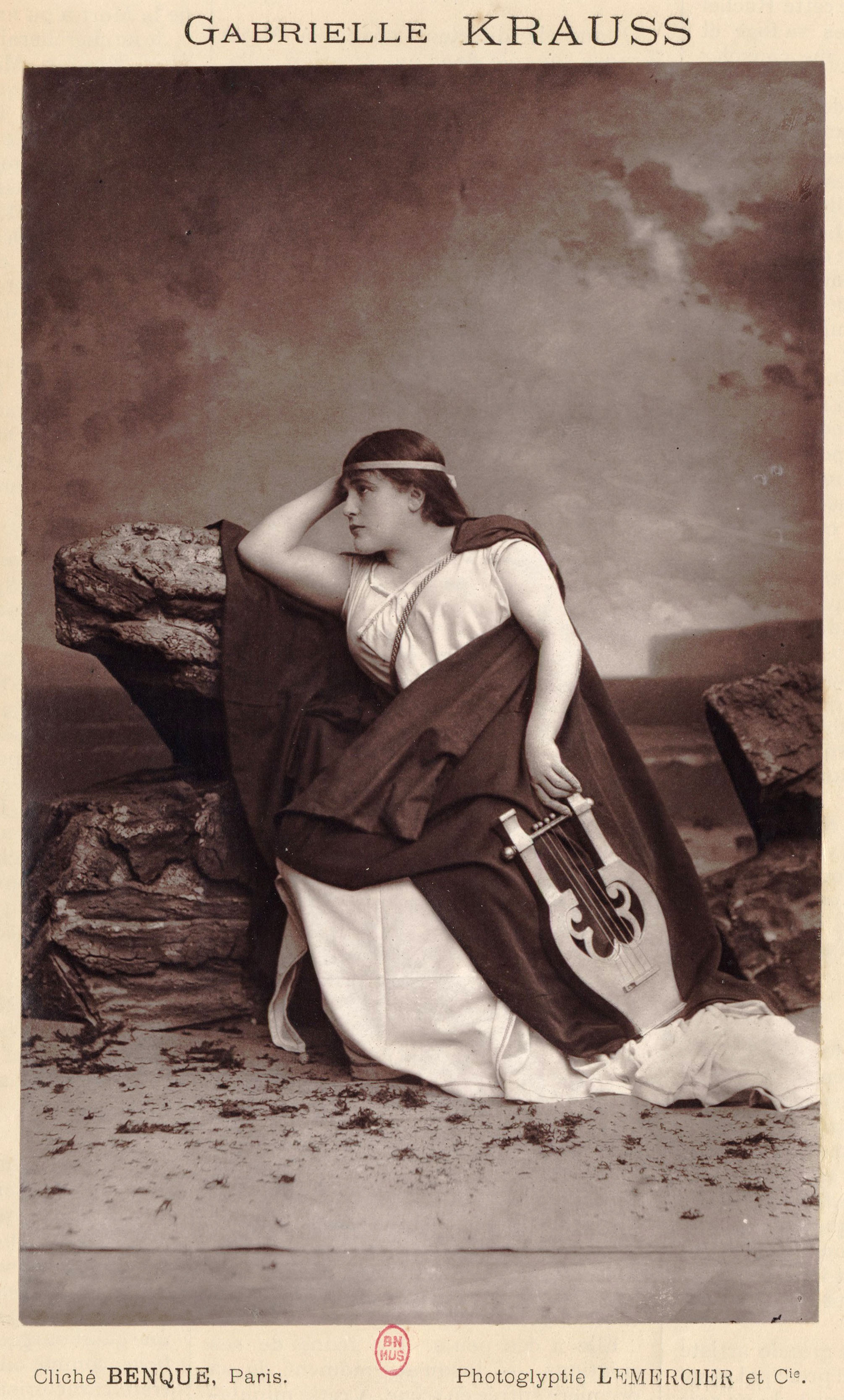 Soprano Gabrielle Krauss in the role of "Sapho" in Charles Gounod opera Sapho revised version (1884 Paris